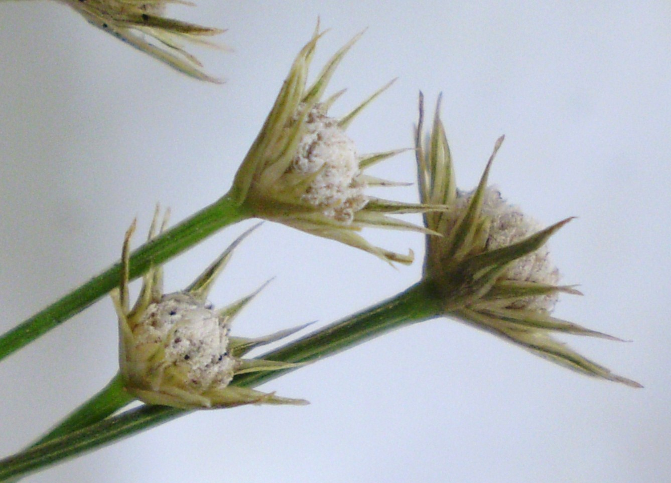 Eriocaulon sikokianum(Eriocaulaceae)